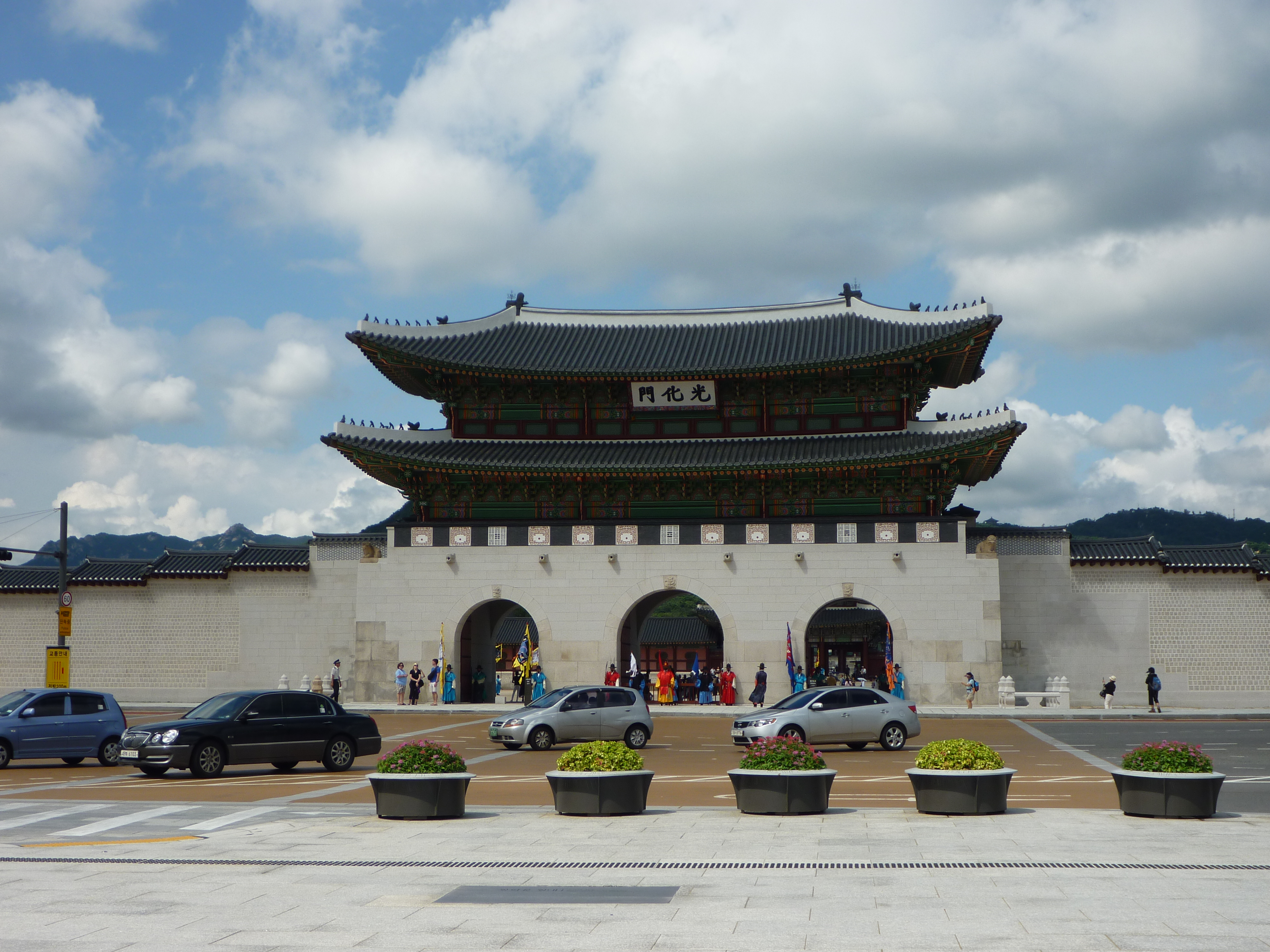 Kwanghwamun